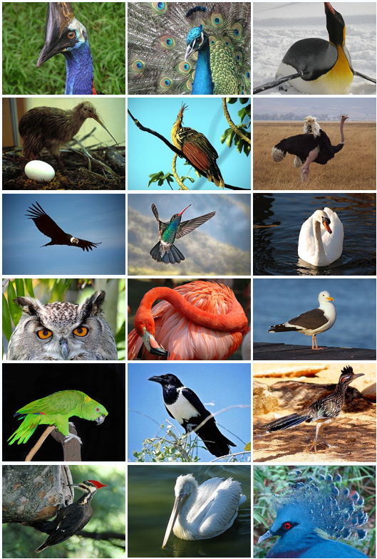 Kiwi with egg in the Kauri Museum, New Zealand Opisthocomus hoazin; Beni River, Bolivia